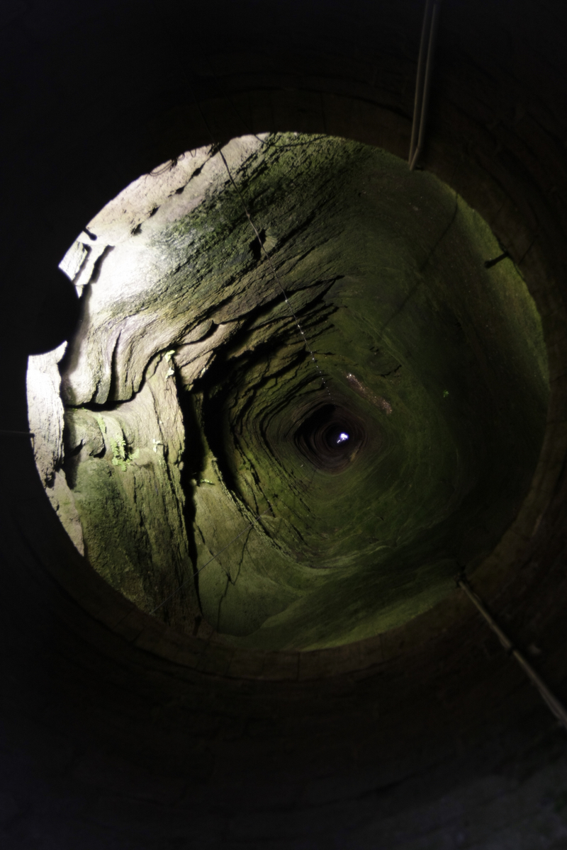 The Kyffhäuser-Memoriam. The Reichsburg Kyffhausen well. The Deepest mediaeval well in the world.